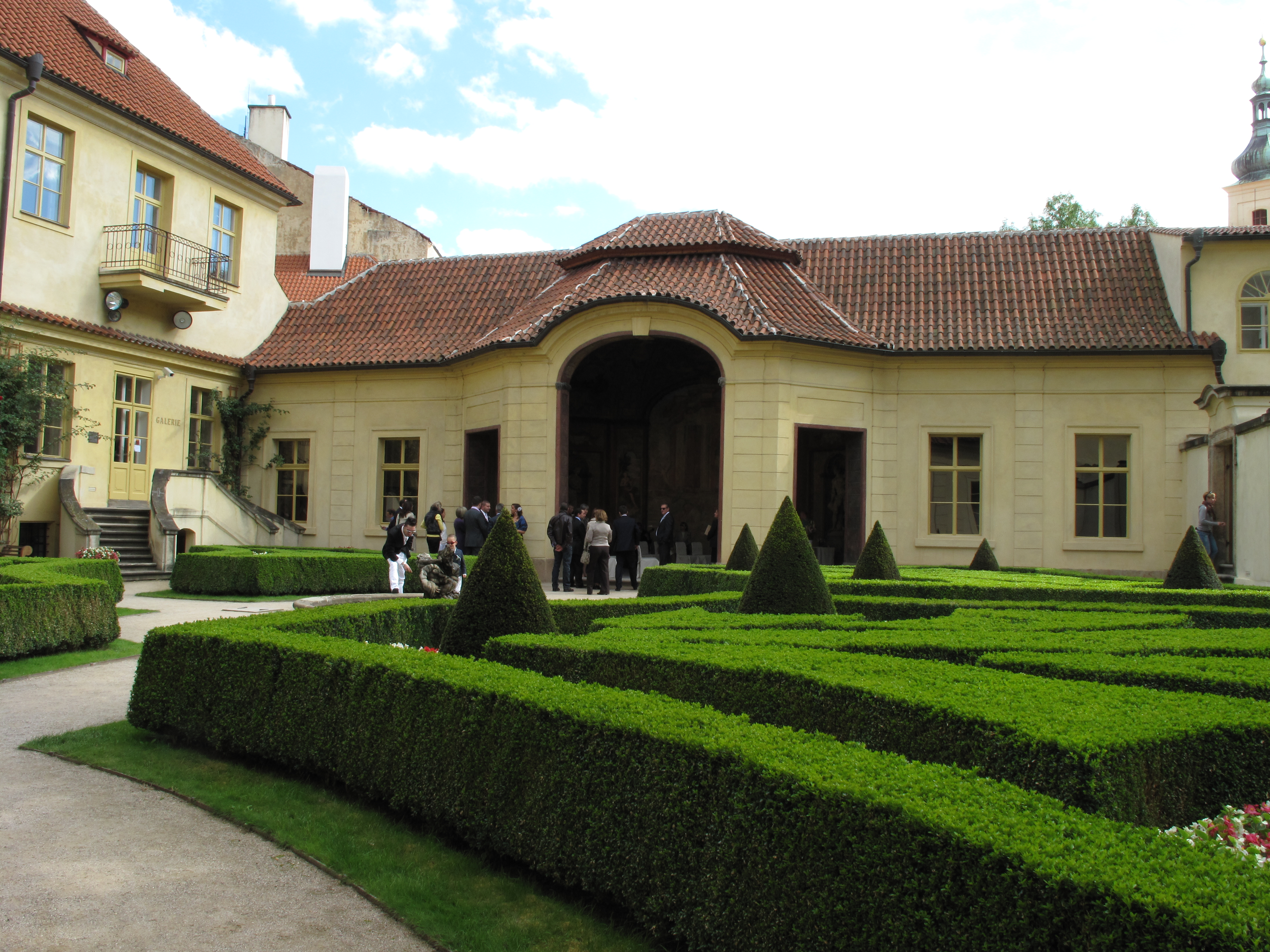 Sala terrena from the first level of Vrtba Garden, Prague, Czech Republic.